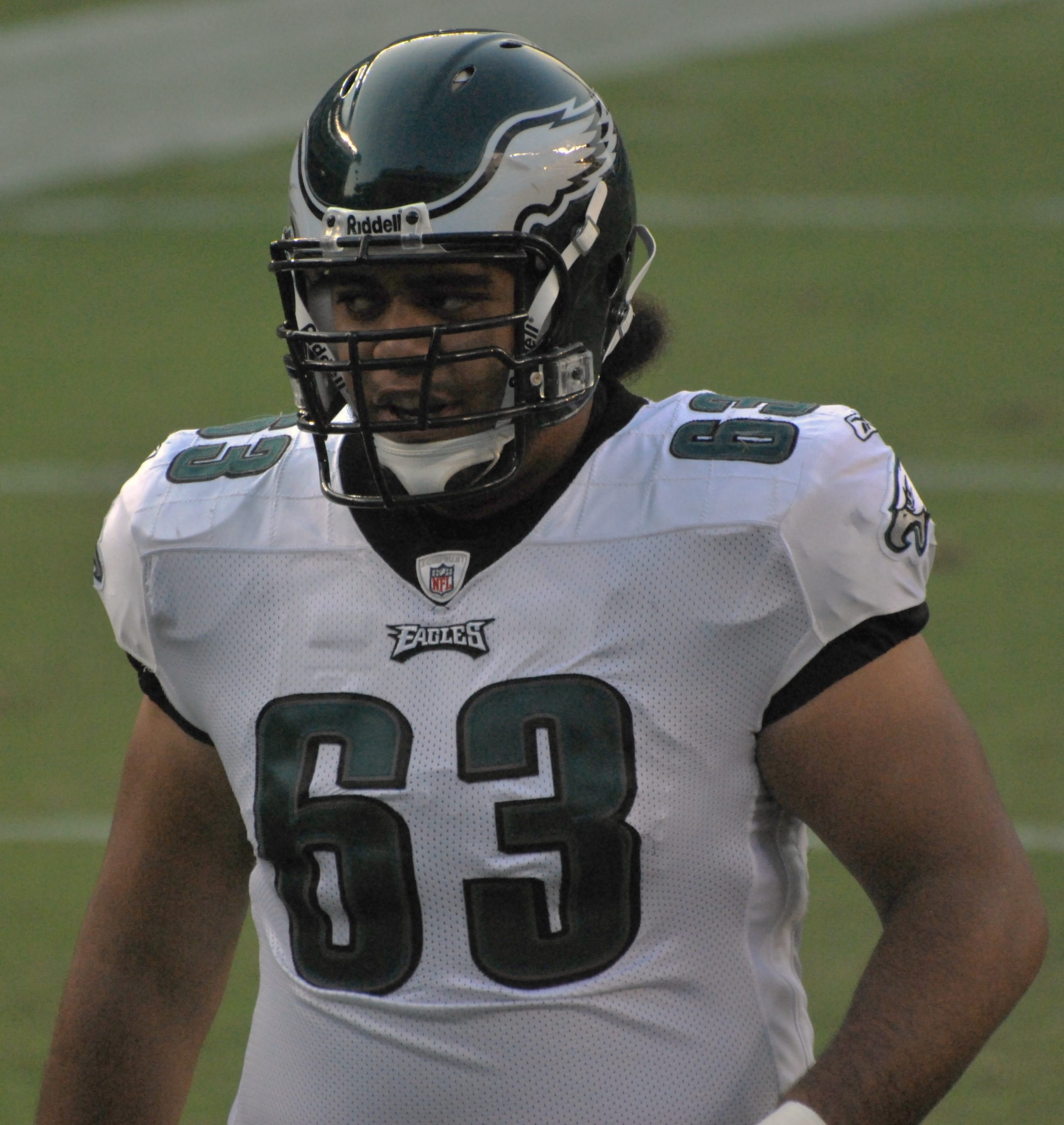 Philadelphia Eagles Guard Paul Fanaika in a preseason game against the Jacksonville Jaguars in August 2009.